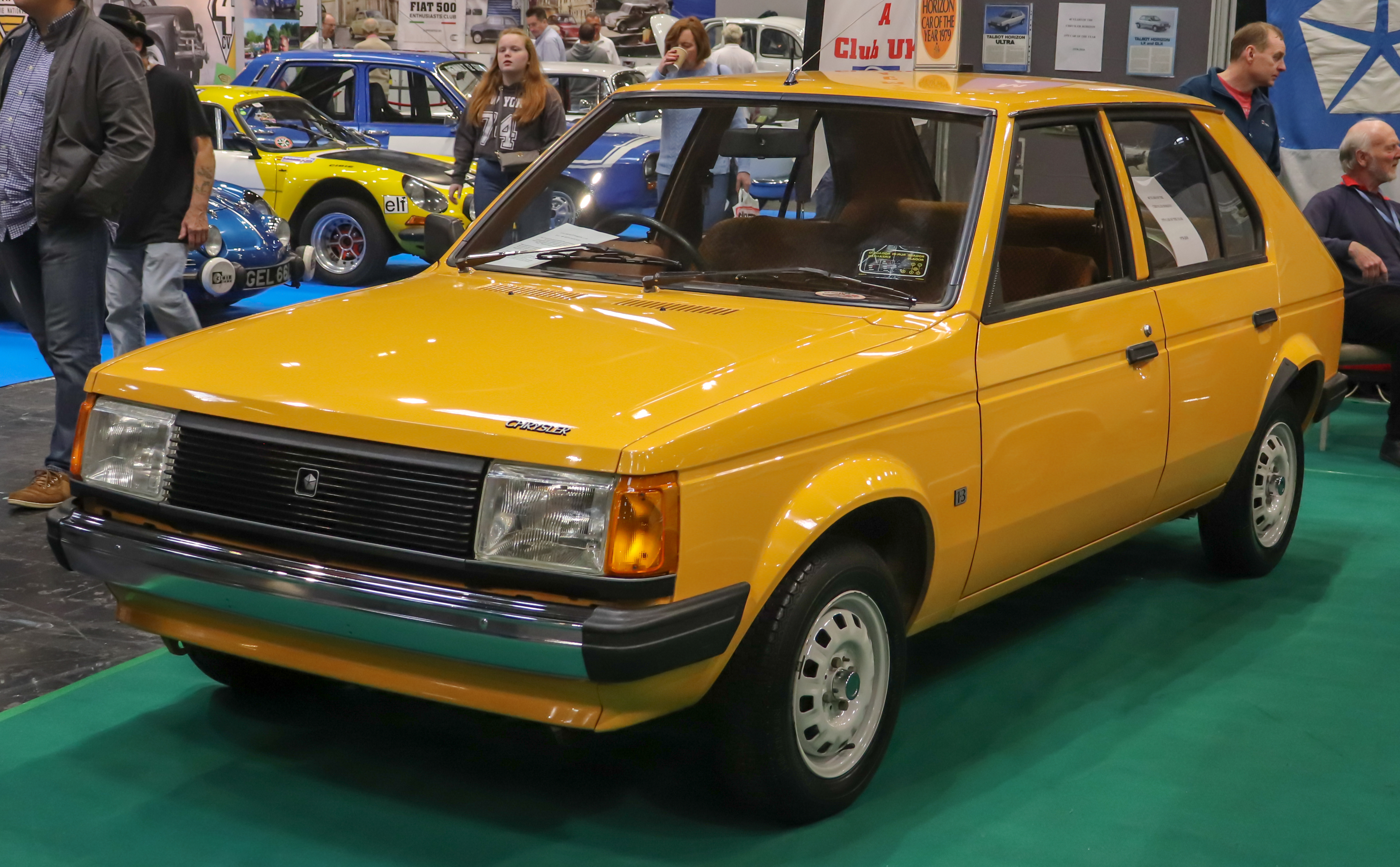 1978 Chrysler Horizon GL (Only done 300 miles and never been registered. The first owner took it for a 300 mile drive to Bristol without a number plate.) Taken at the NEC Classic Motor Show 2018